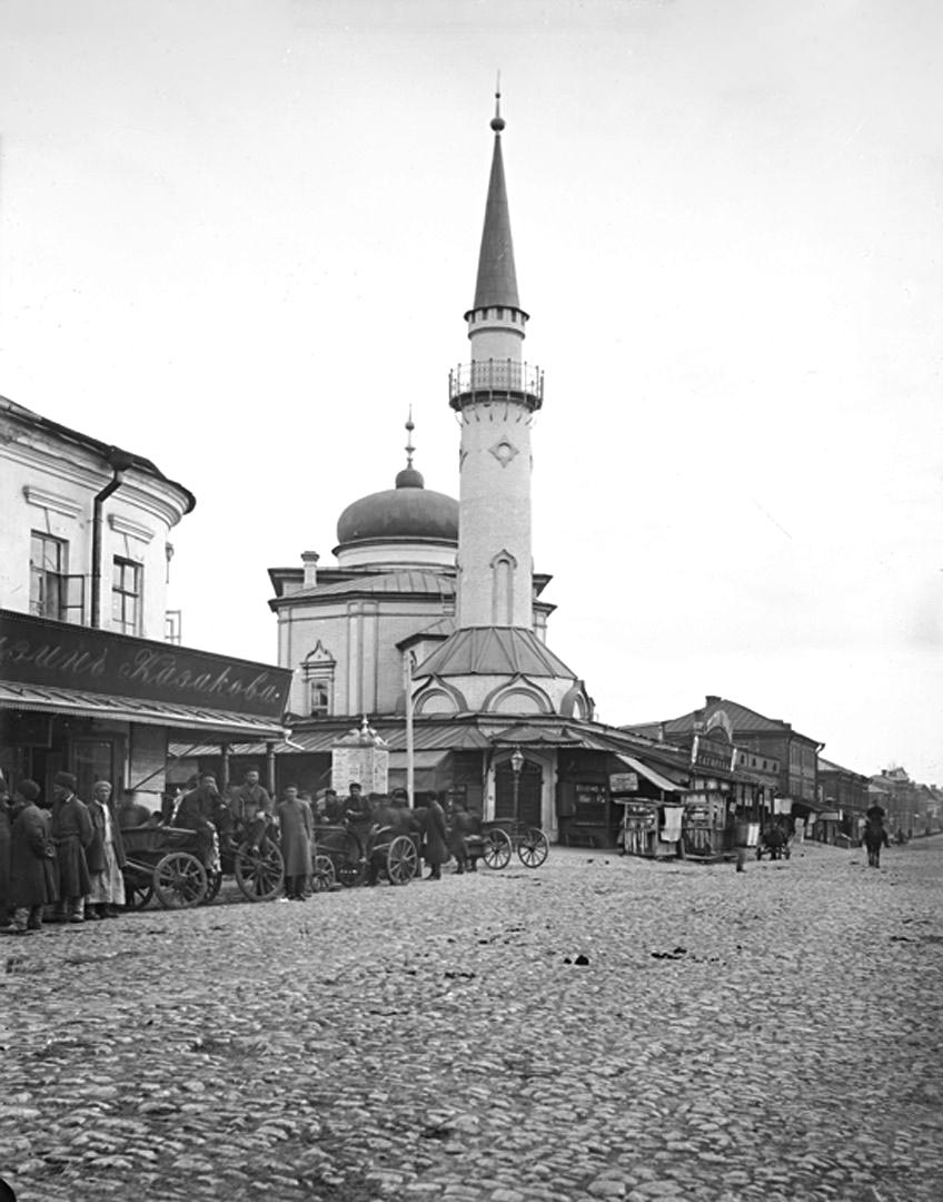 Sennaya, now Nurulla, mosque in Kazan. Picture taken before 1917